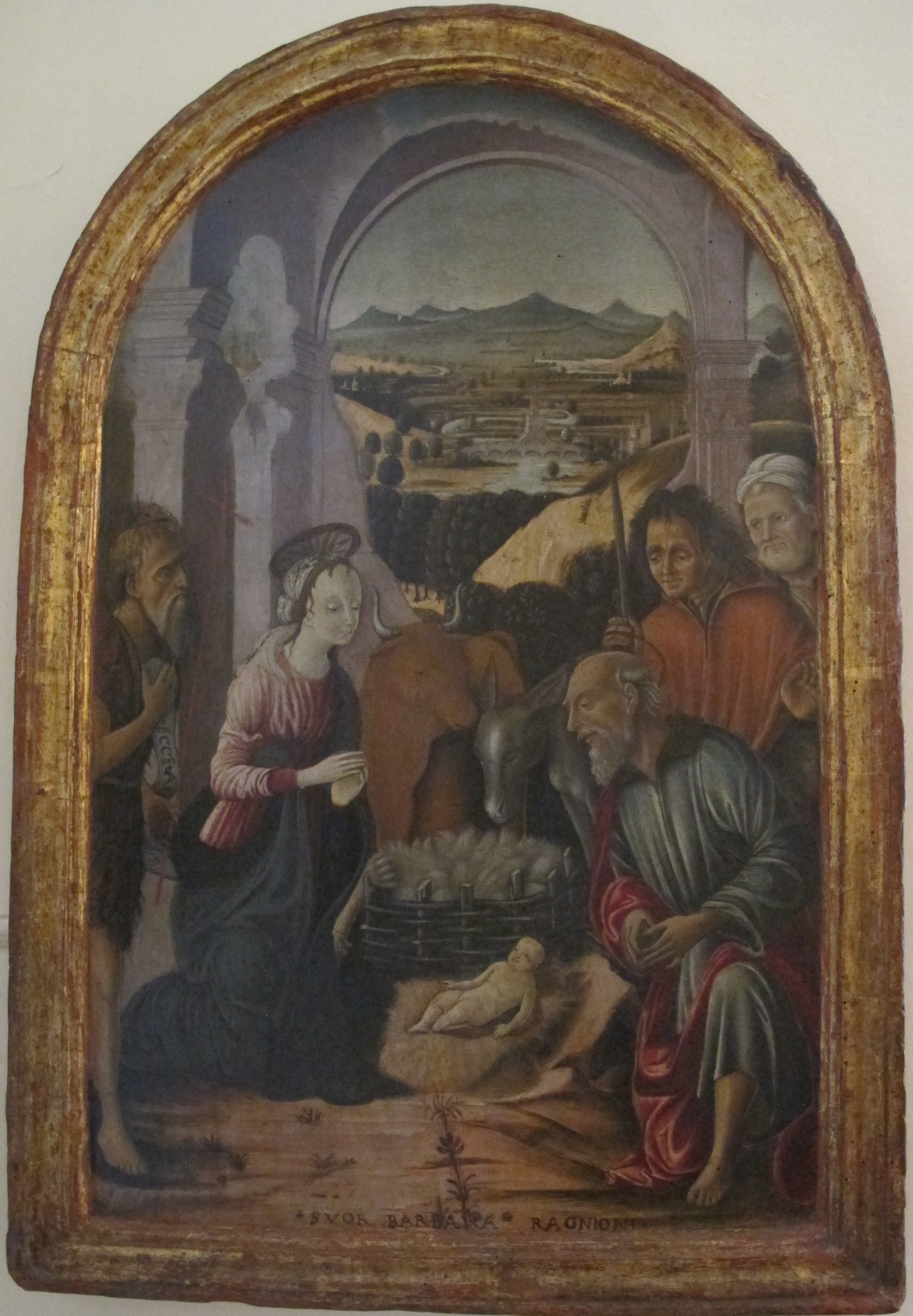 Painting in the National Pinacotheque, Siena